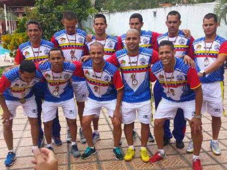 Venezuela men's national futsal-AMF team